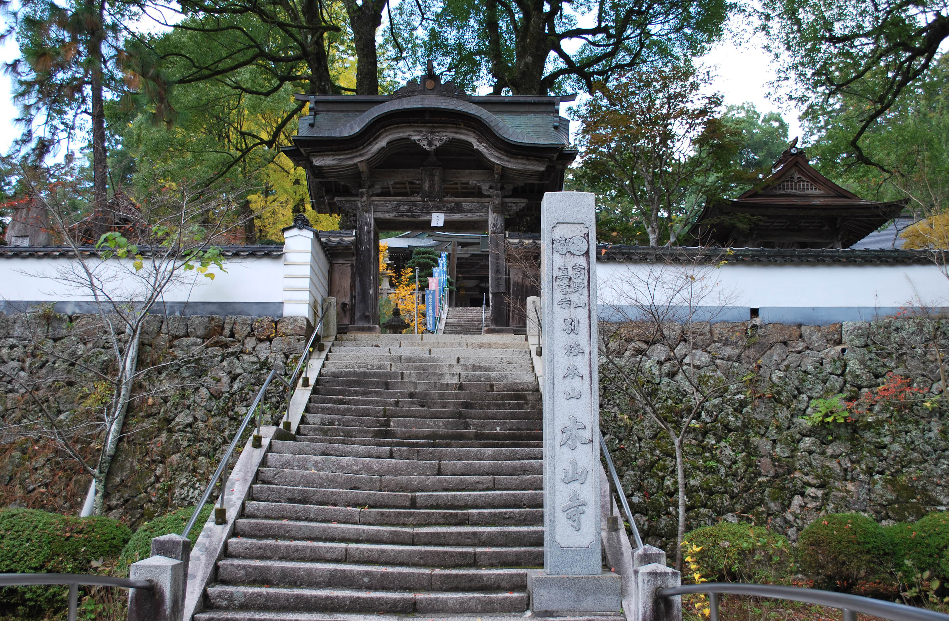 Jōju-bashi bridge and Furō-mon gate, Kiyama-ji